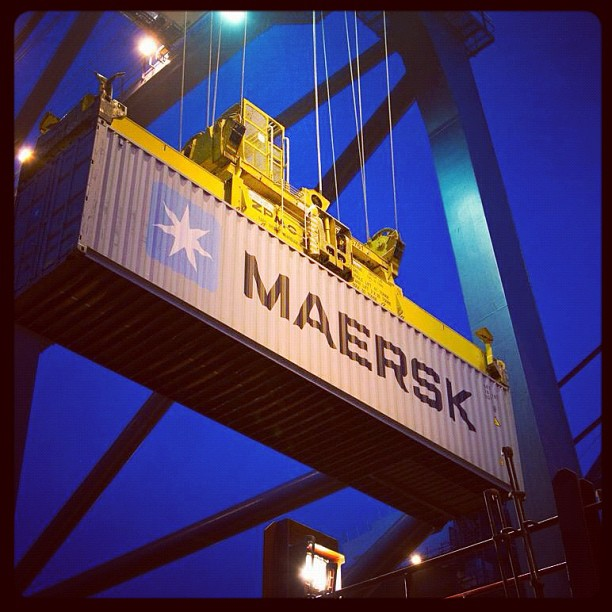 First Daily Maersk container arriving in Felixstowe